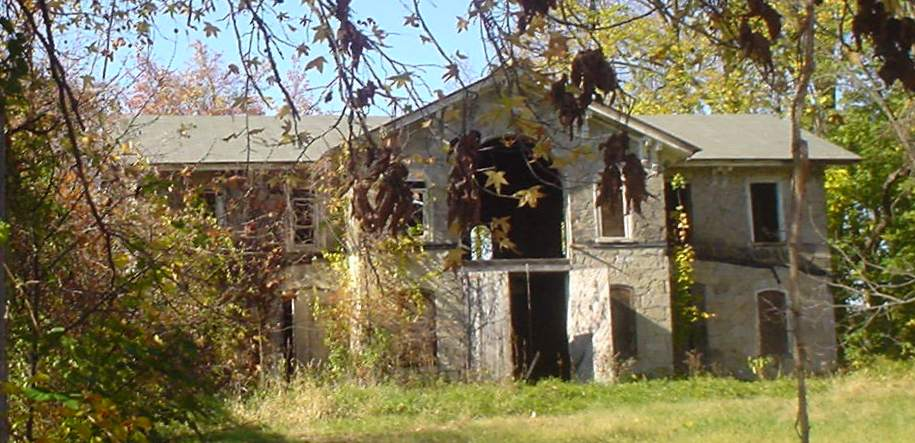 All that seems to remain of the George K. Crozer estate in Upland, PA, which is on the NRHP. Given the state of the building at the time of application (1980s?) it is not surprising that little remains - see picture [1] This looks like a carriage house or something similar. A small building in a grand style, falling down and surrounded by a 10 foot high overgrown chain link fence.